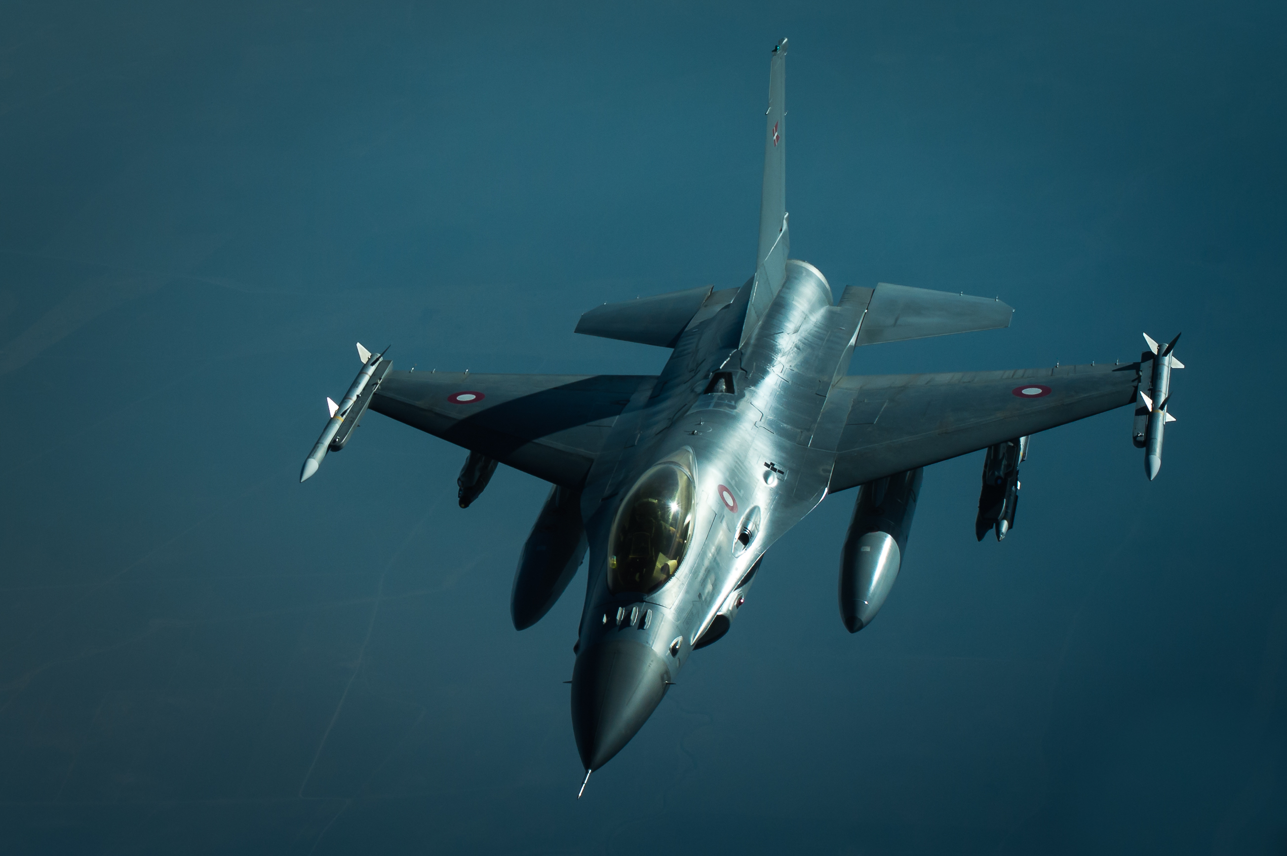 A Royal Danish Air Force F-16 separates from a KC-10 after refueling near Iraq, Oct. 26, 2016. The RDAF F-16s are providing close air support with several other coalition airframes working to liberate the city of Mosul, Iraq. (U.S. Air Force photo by Senior Airman Tyler Woodward)